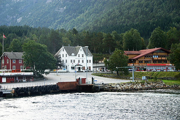 Kinsarvik ferry terminal seen from the ferry Departing Kinsarvik on our first of many ferries.